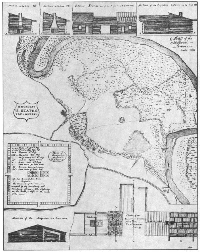 An engineering map of Cantonment Missouri, later to be known as Fort Atkinson, Nebraska.